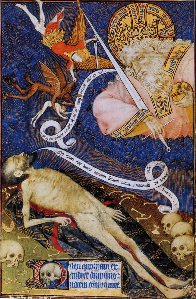 Painting from Grandes heures de Rohan